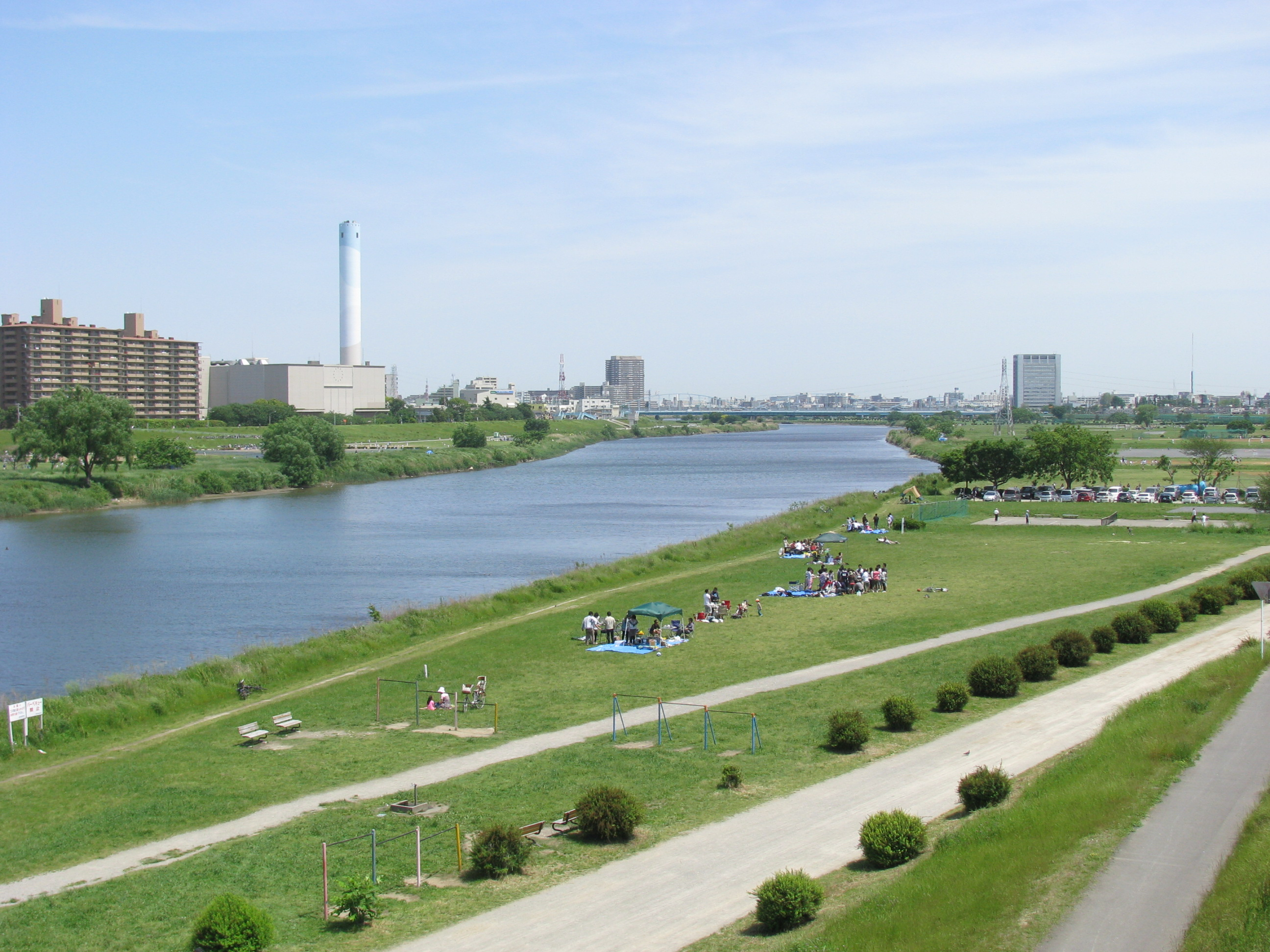 The Tama-gawa. This located is Kami-Hirama in Nakahara-ku, Kanagawa Prefecture, Japan.